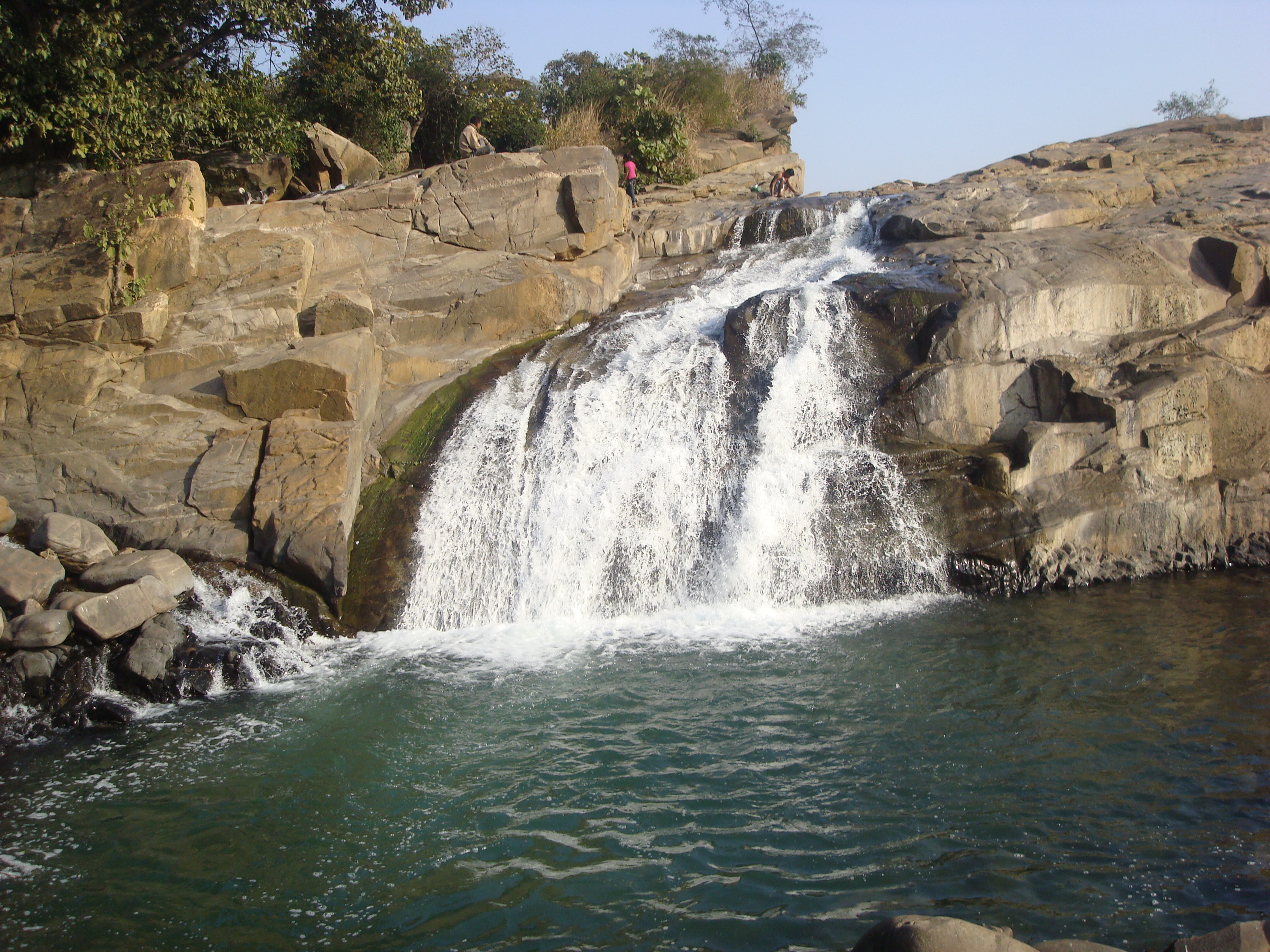 ushri falls at deoghar